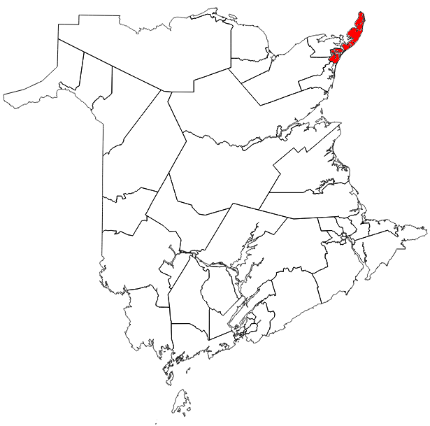 The riding of Shippagan-Lameque-Miscou in relation to other New Brunswick electoral districts